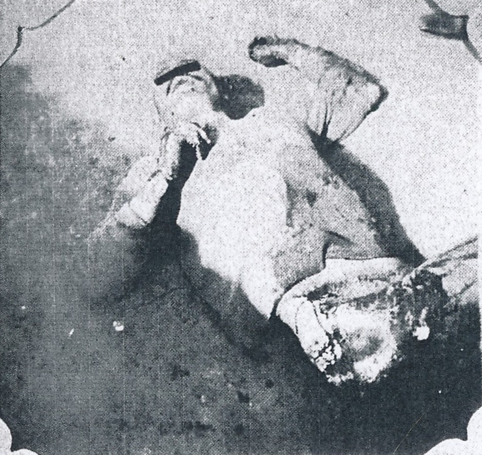 Massacred corpse of a Japanese victim of the Tungchow Massacre